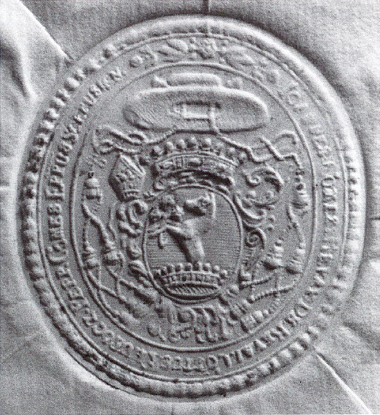 Jan Revai